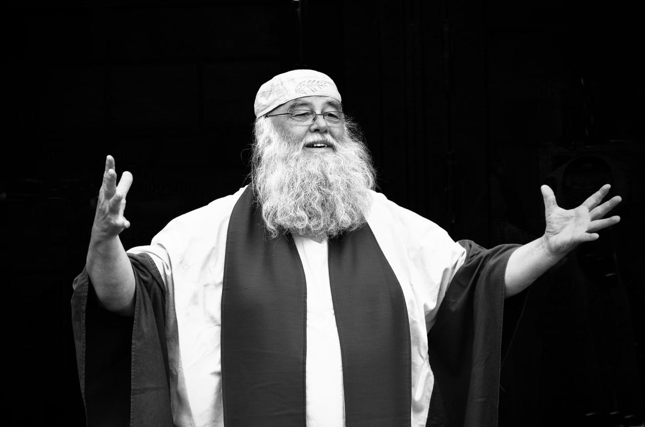 Brother Spaghettus (Rüdiger Weida), Honorary Chairman of Kirche des Fliegenden Spaghettimonsters Deutschland e. V. (Church of the Flying Spaghetti Monster Germany)